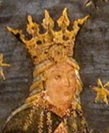 Maria Voichita the third official wife of the Ştefan cel Mare, ruller of Moldova